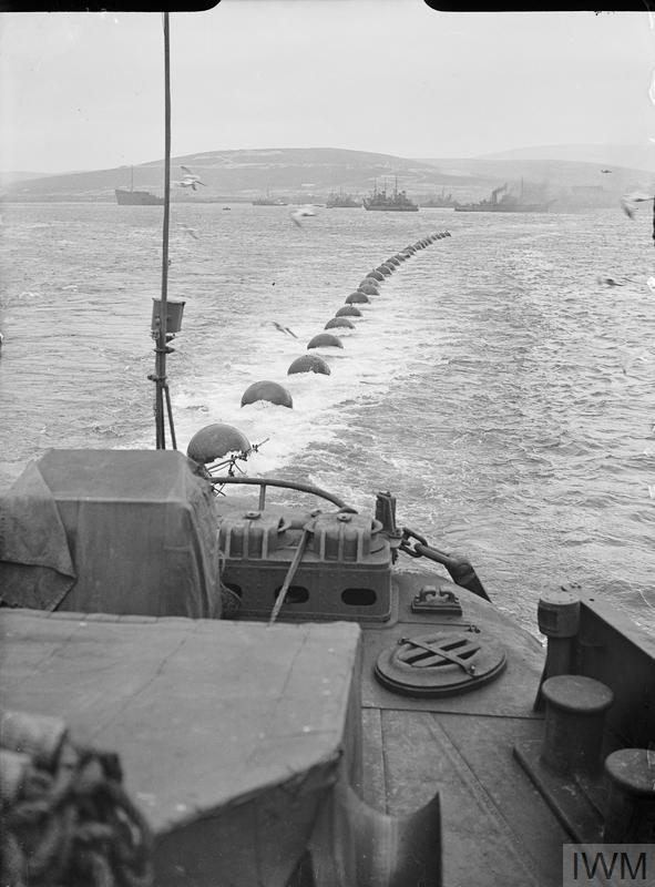 The boom defence net, intended to protect the harbour against marauding enemy vessels, is towed into position by two boom defence vessels manned by Royal Navy veterans of the First World War.